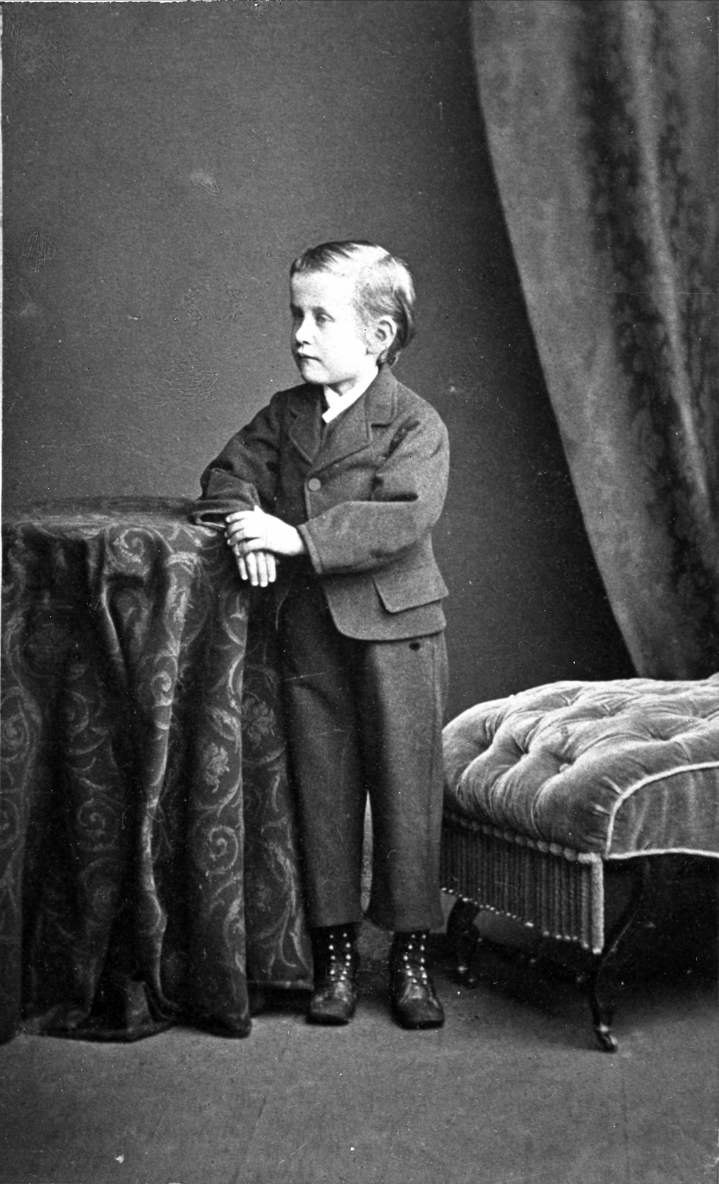 Picture from 1870 - 1880 by Kristian Birkeland as a child. He became a professor in physics and is considered the first space researcher. Norsk Teknisk Museum. Inventarnr. NTM UWP 35123